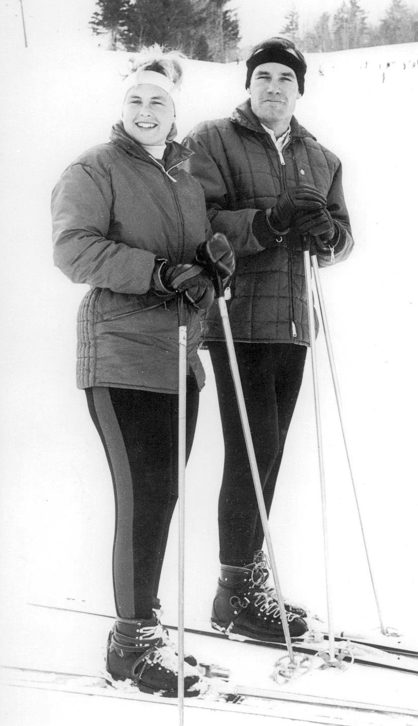 1964 Wire Photo Barry Goldwater Jr Penny Pitou